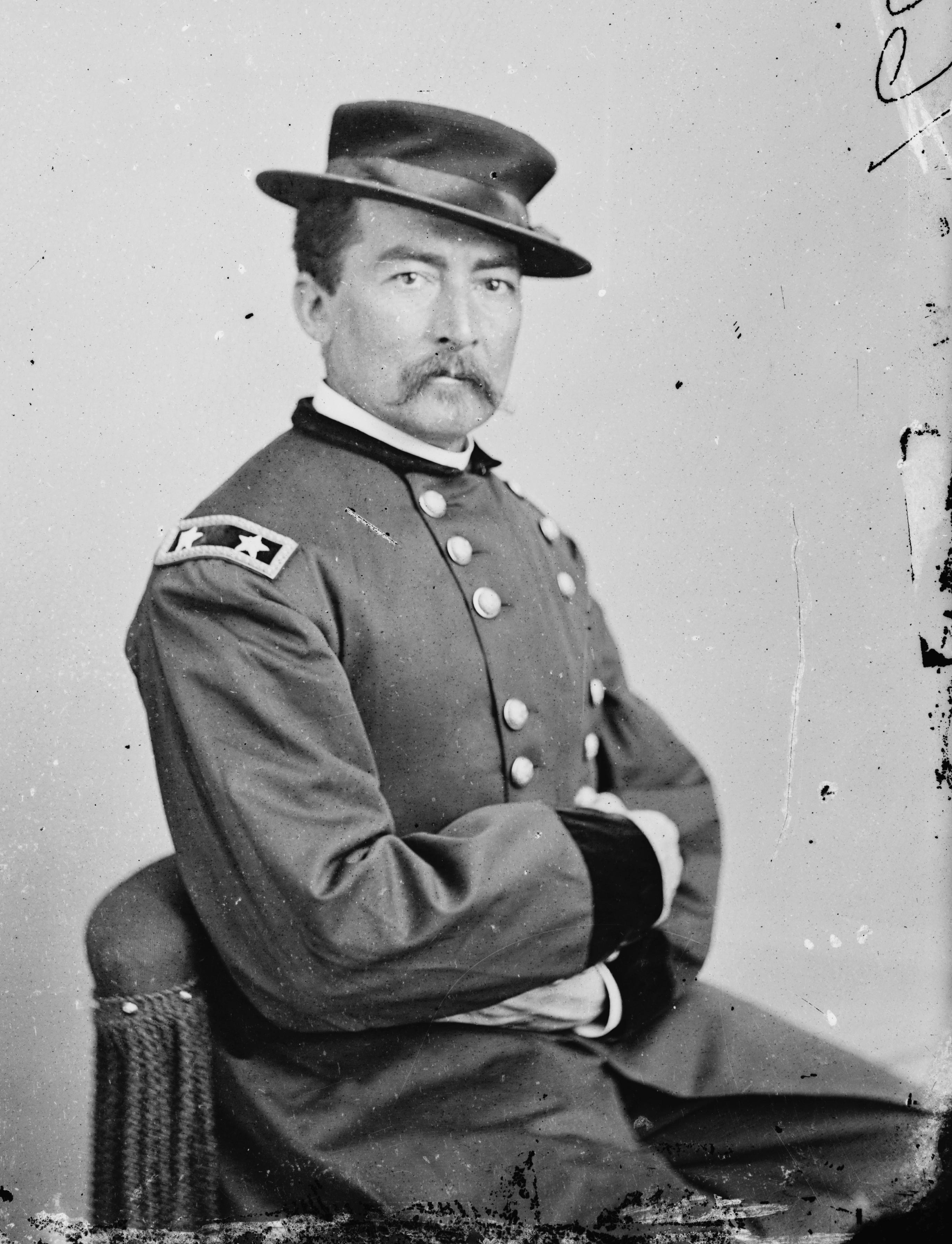 Philip Sheridan. Library of Congress description: "Gen. Phil Sheridan"